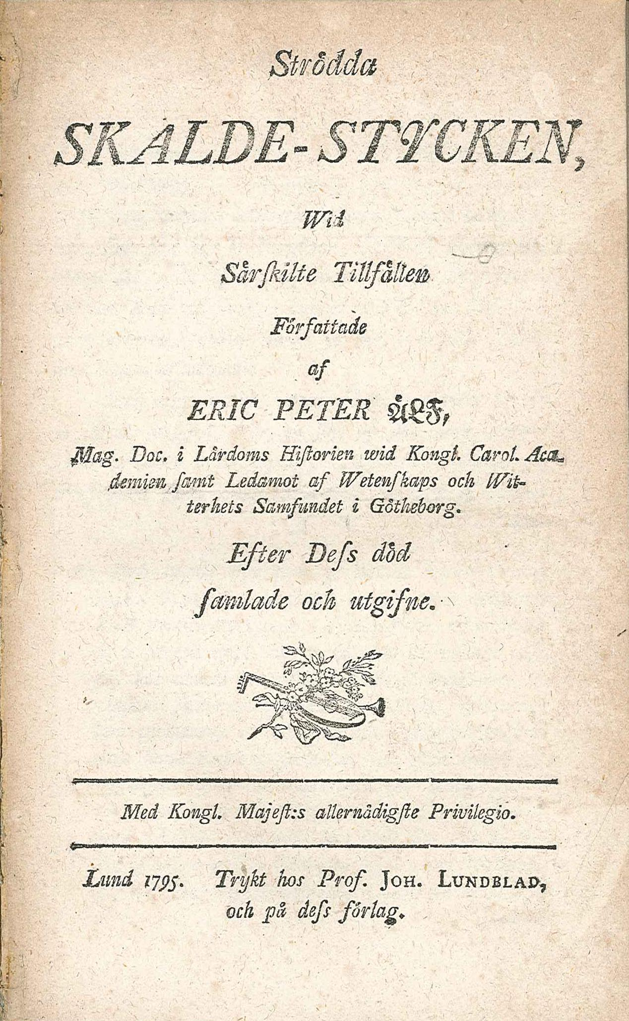 The title page of Strödda skalde-stycken wid särskilte tillfällen by Eric Peter Älf (1765-1793), compiled and published by professor Johan Lundblad with an introduction by Carl Gustaf af Leopold (1756-1829) in 1795.